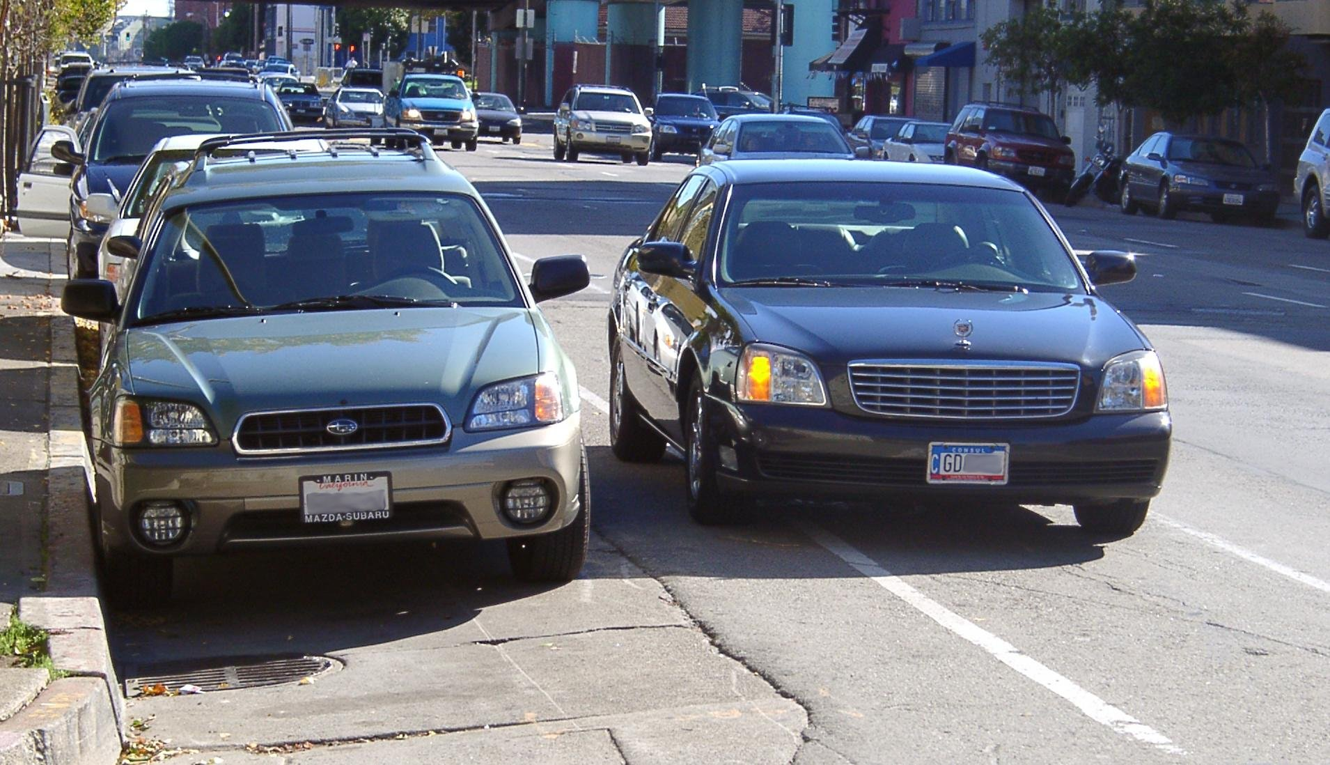 Double parked car with diplomatic tags in San Francisco, California. The consular code on the license plate indicates issuance to Ukraine.